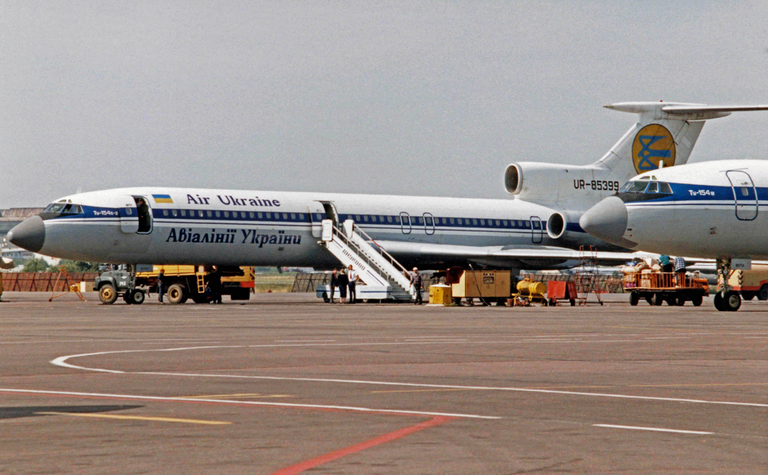 Tupolev Tu-154B of Air Ukraine at Moscow (Vnukovo) Airport